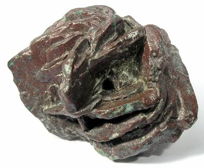 Azurite, Copper Locality: Copper Rose Mine (Rose Mine; McGregor Mine; Copper Glance Mine; Potosi Mine), San Lorenzo, Georgetown District, Grant County, New Mexico, USA (Locality at ) Size: thumbnail, 3.4 x 2.7 x 2.3 cm Copper ps. Azurite Stunning pseudo and one of the best of these old classics that I have had � looks like someone just cast the copper in the form of an Azurite rose. It is that sharp and well-defined, with moderate luster and a rich chocolate-brown patina to it. Many of these fine pseudos were collected by George English and A.E. Foote in the 1890's and were sold to Eastern collectors and also to European collectors.� This one from the Rose Mine which is east of the Chino�mine. This is a classic New Mexico locality, now gone.